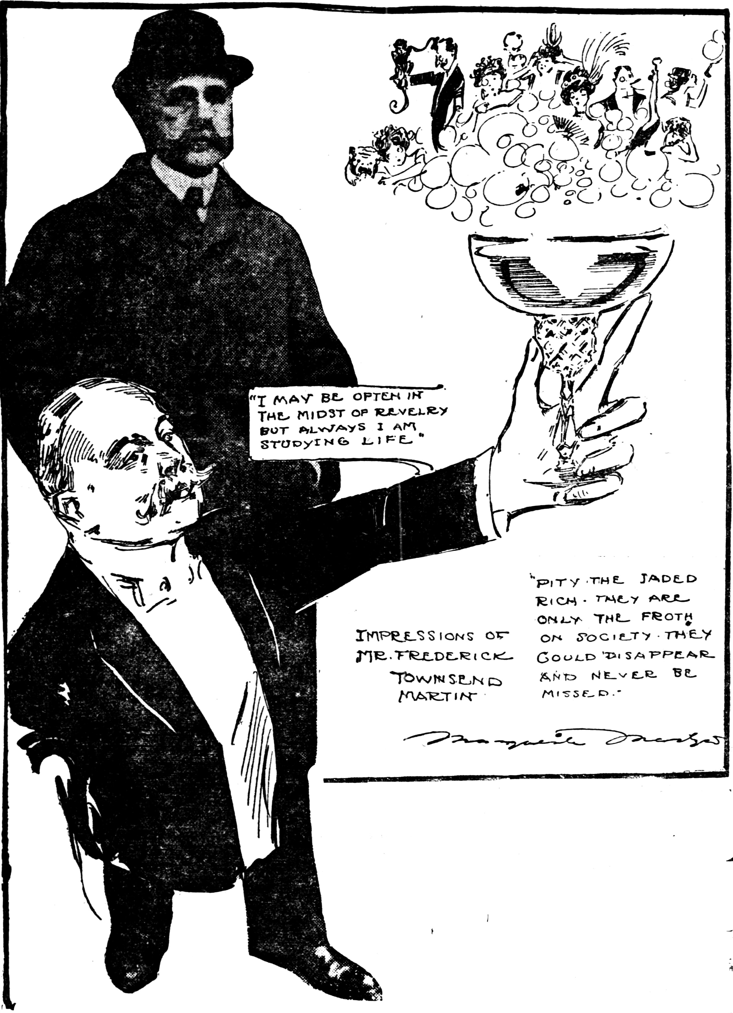 Photo of Frederick Townsend Martin, with Marguerite Martyn's imaginative sketch of him holding an ornamented glass with society figures amid the bubbles emanating from it. Two of his quotations during his interview by Martyn are included.